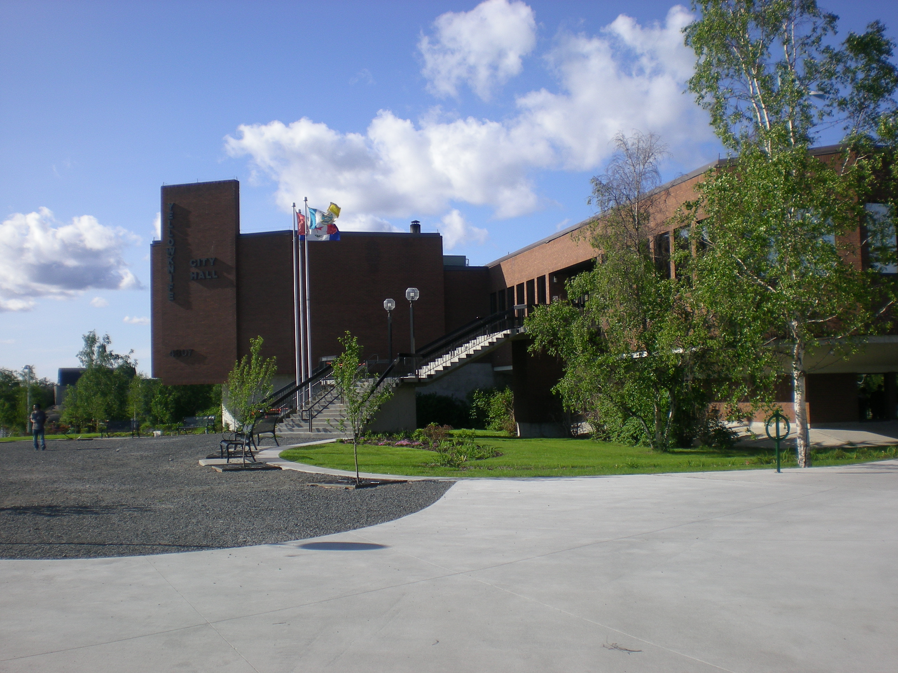 Yellowknife City Hall